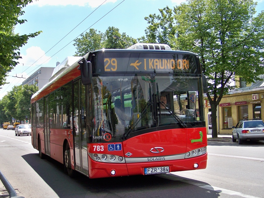 Solaris Urbino 12 CNG bus (#783, reg. FZR 384) in Lithuania. Built 2012, UAB Kauno autobusai (KA) from Kaunas operator.